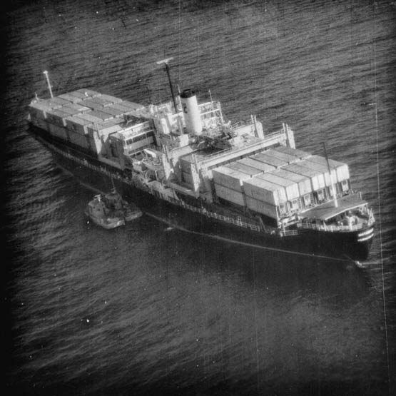 Aerial surveillancs showing two Khmer Rough gunboats during the initial seiziing of the SS Mayaguez